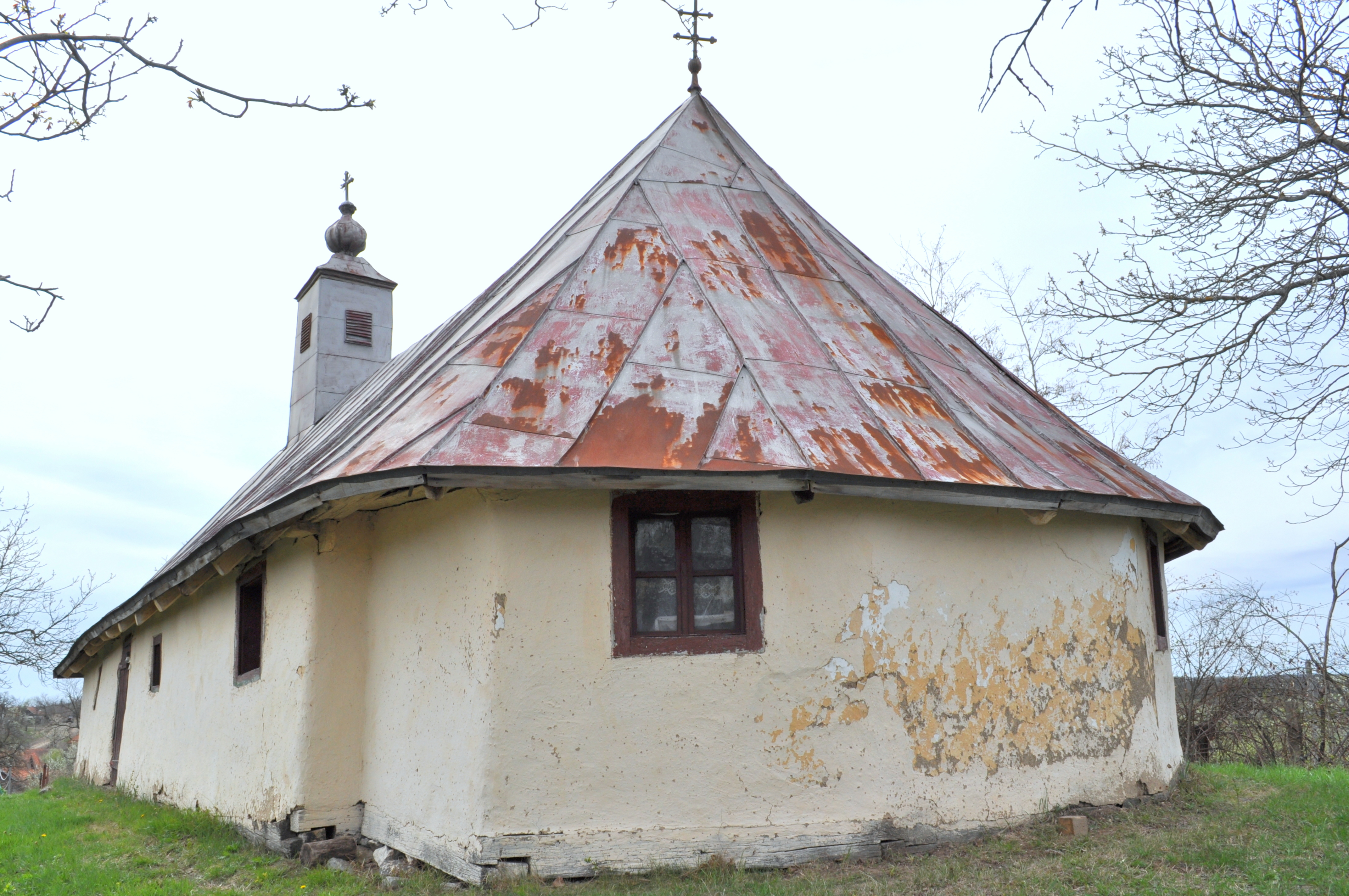 The old wooden church in Bruznic, Arad county, Romania